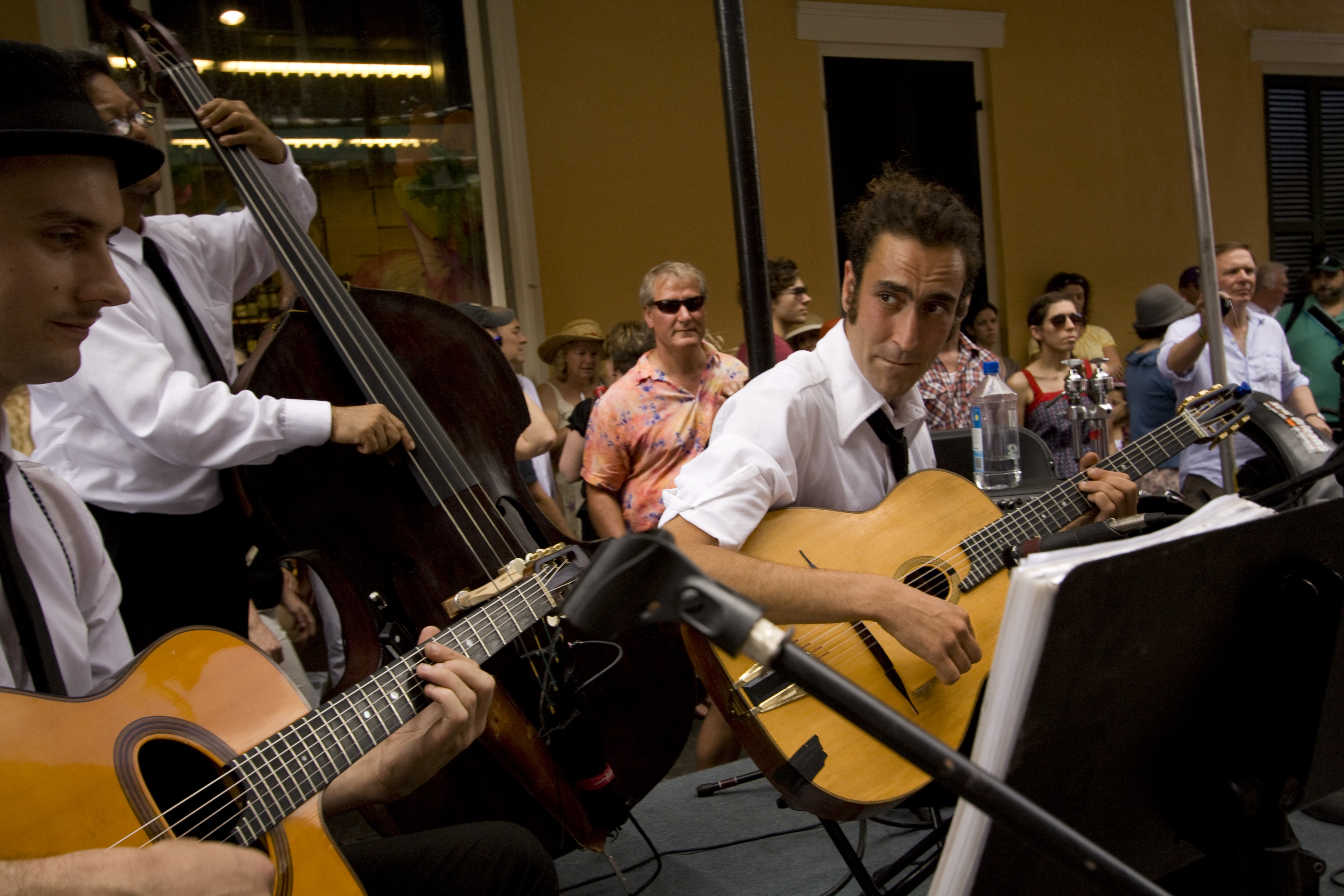 French Quarter Festival 2012. Tony Green's Gypsy Jazz Band.